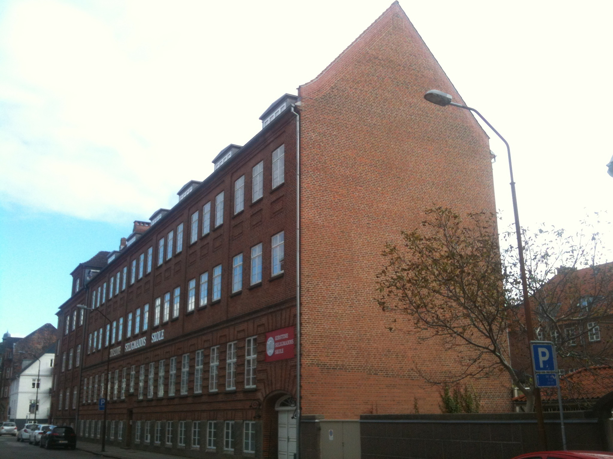 Kirstine Seligmanns Skole - Vejle - Denmark - Building located in WorsaaesgadeDansk: Kirstine Seligmanns Skole - Vejle - Denmark - - Lokalerne i Worsaaesgade